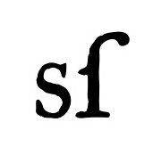 round s and long s, typeface: "Historical Fell Type Roman" Hoefler & Frere